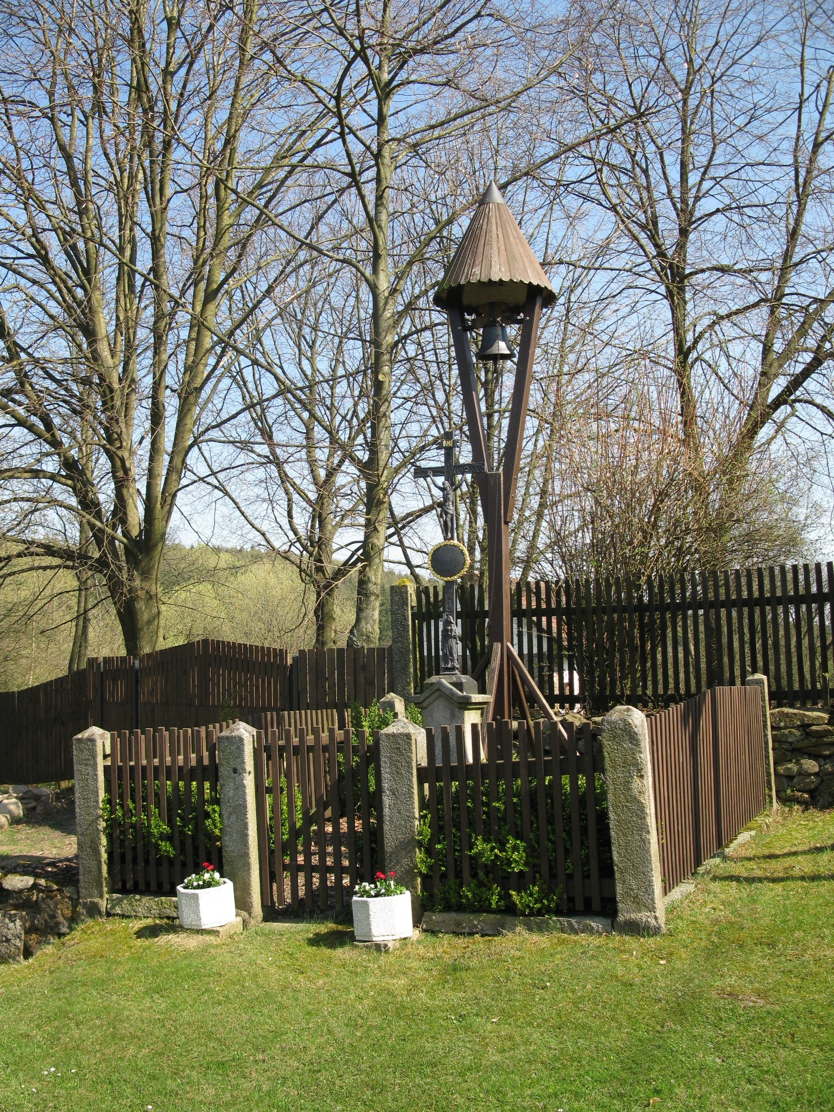 Bellfry in Benetice